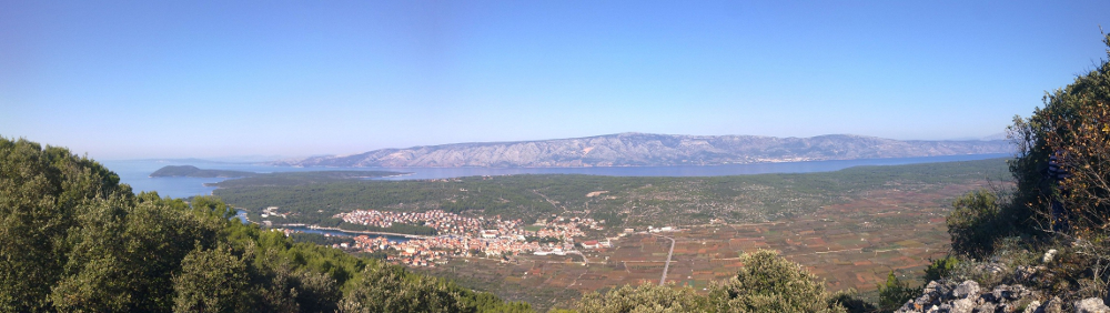 Stari Grad and a part of Stari Grad Plain as viewed from Purkin kuk